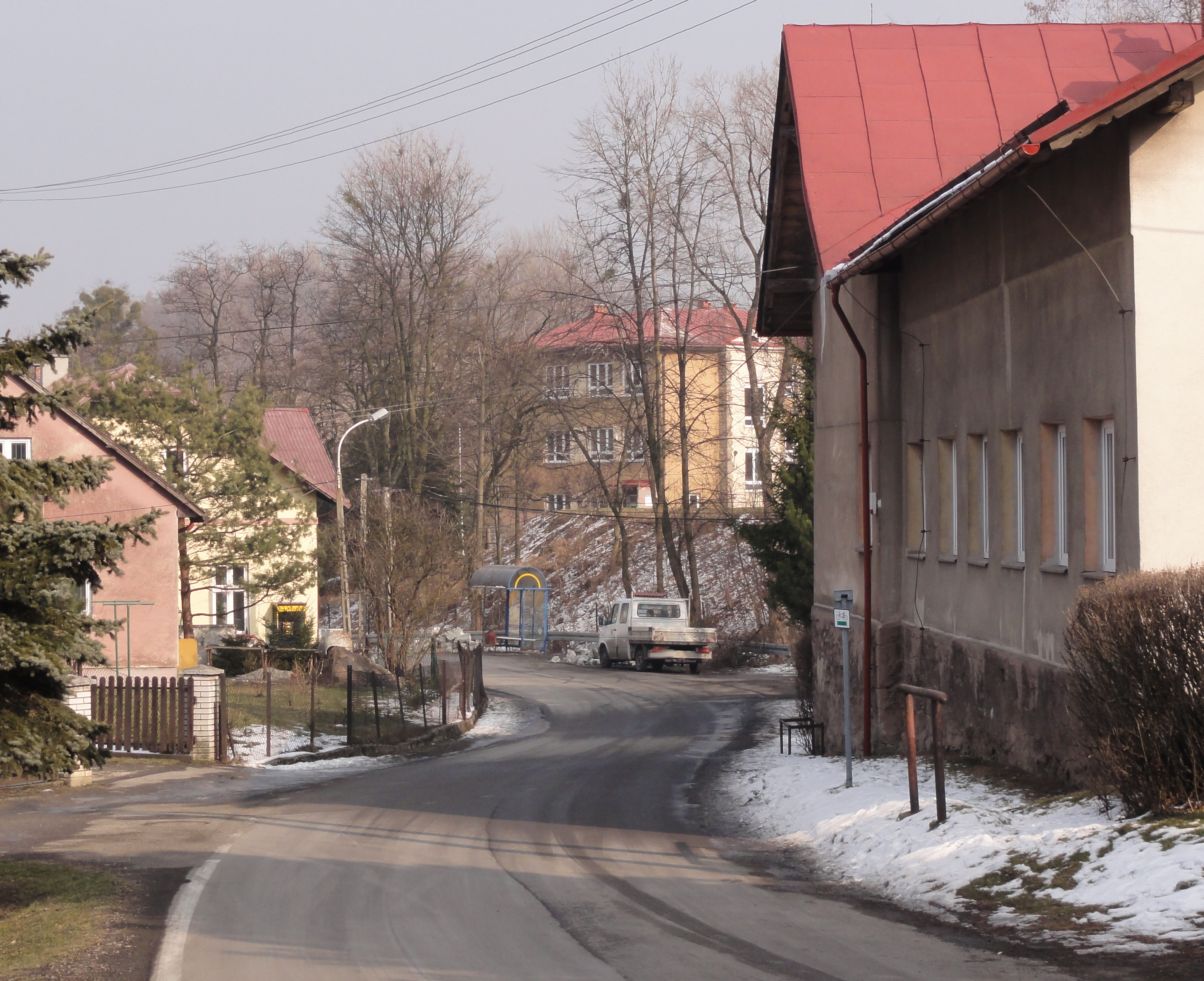 Village's centre of Cisownica